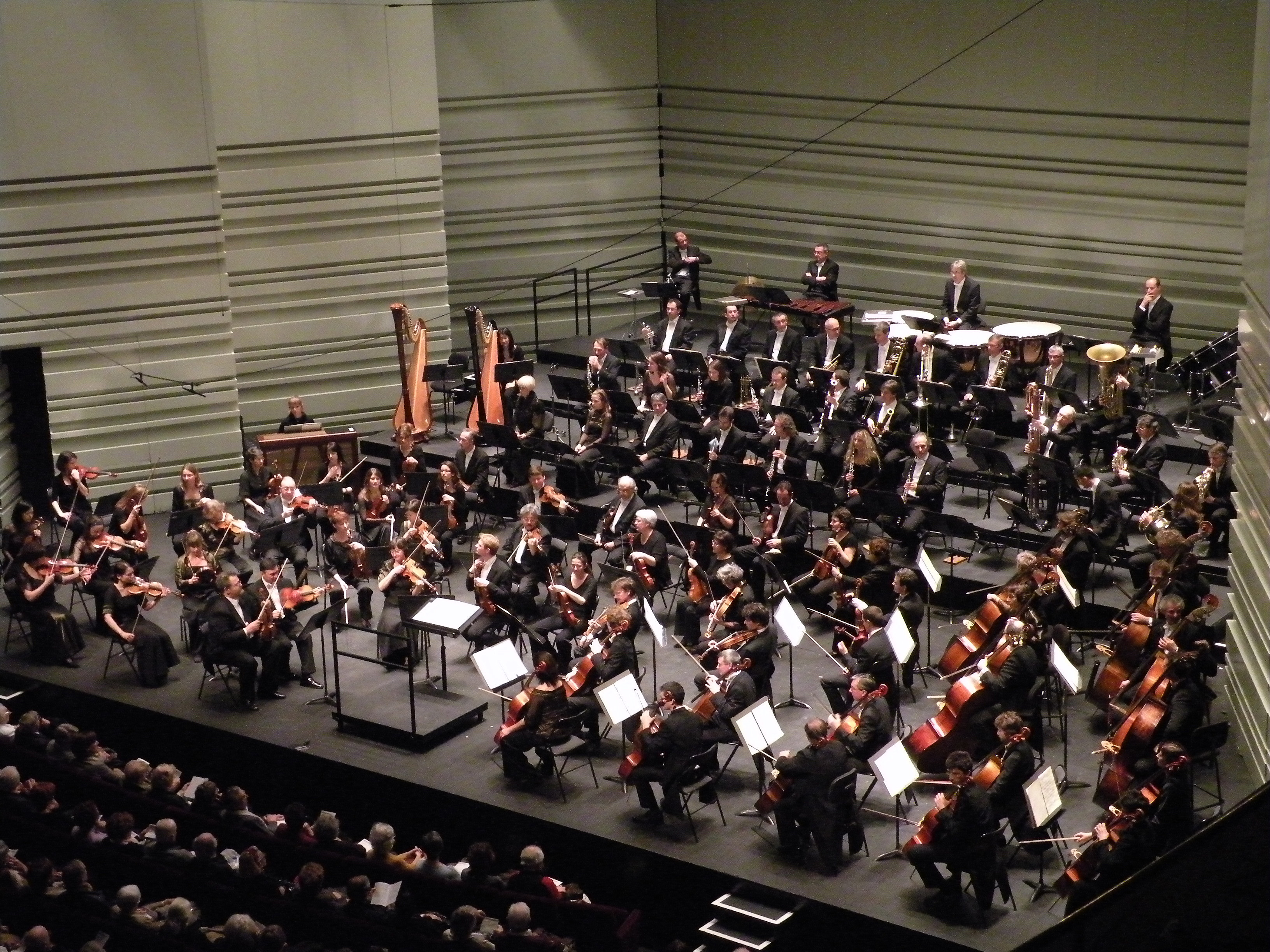 The Orchestre National des Pays de la Loire, on 30 January 2009 during La Folle Journée in Nantes.